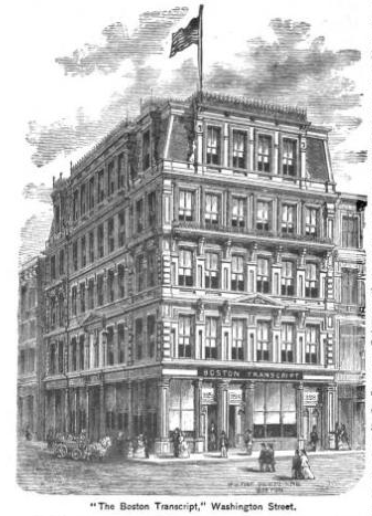 King's Hand-book of Boston ...: Profusely Illustrated By Moses King Published by M. King, 1881